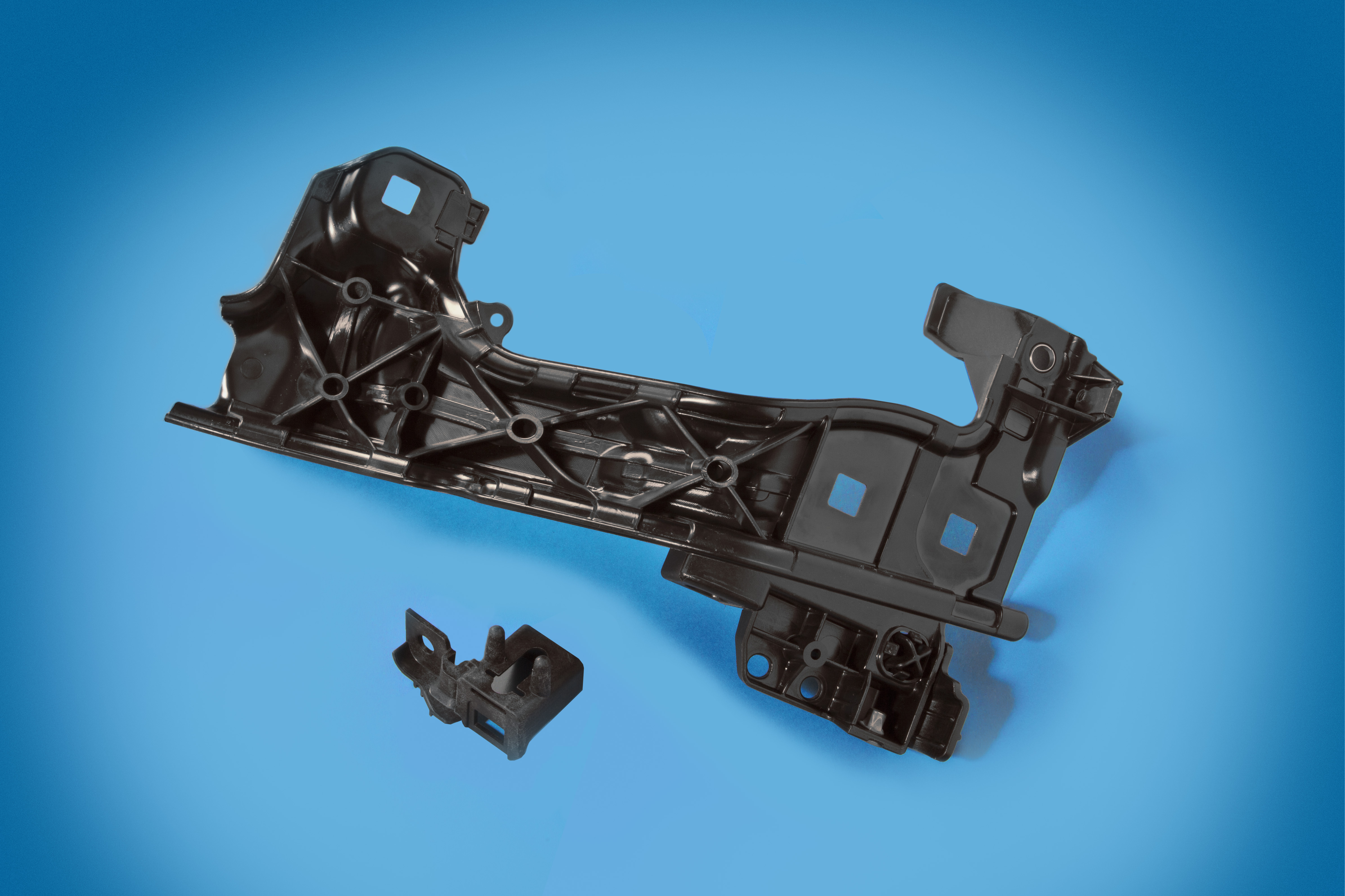 INTEGRATED HEADLAMP/HOOD BUMP-STOP BRACKET •OEM Make & Model: Ford Motor Co. 2013MY Ford Fusion sedan •Tier Supplier/Processor: Magna Exterior & Interior •Material Supplier / Toolmaker: Styron LLC/ Advantage Mold, Inc. •Material / Process: PP / injection molding •Description: Hood bump stops, together with headlamps, provide stiff resistance to the hood structure when impacted, leading to high HIC values during pedestrian-protection testing. Hood material, shape, and packaging space can also affect HIC performance. Traditionally, the hood bump stop and headlamp attachment bracket are designed as separate components. However, a new integrated 1-piece plastic bracket combines the function of the hood bump stop and headlamp attachment and offers a more efficient way to meet new pending ped-pro requirements. The injection-molded 30% GR-PP patented part is tunable for a wide range of breakaway load levels, can be used on other vehicles, reduces assembly complexity, and lowered HIC values by ~30%.